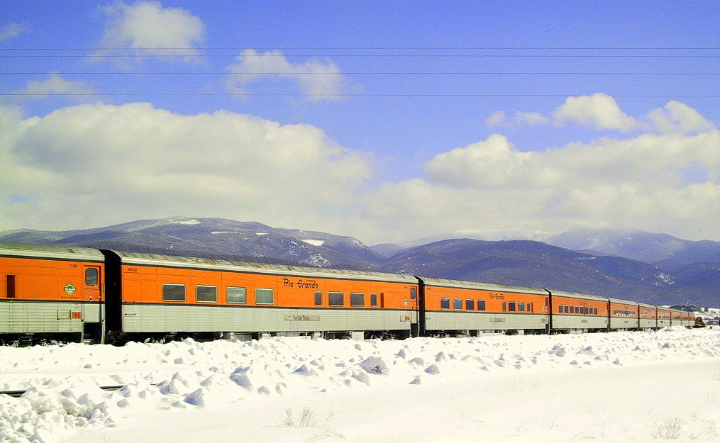 Wying at Tabernash, CO / Denver and Rio Grande Western Railroad Ski Train